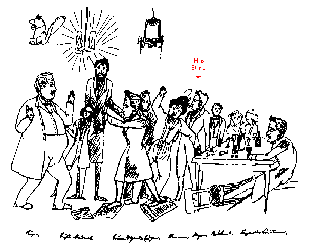 Engel's caricature by 1842. From left: Arnold Ruge, Ludwig Bühl, Carl Nauwerk, Bruno Bauer, Otto Wigand, Edgar Bauer, Max Stirner, Eduard Meyen, three unknown persons, Karl Friedrich Köppen (as captain). Bruno Bauer is stepping on the "line newspaper". There is a decapitation table on the wall, and a squirrel (Eichhorn) is drawn in the left corner (this squirrel is Prussian minister of education Johann Albrecht Friedrich Eichhorn) satirical. Reference: Otsuki "Maruen Collection" Vol.27 p.531